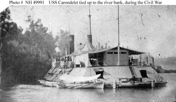 Stern view of the United States Navy ironclad gunboat tied up along a river bank during the American Civil War.